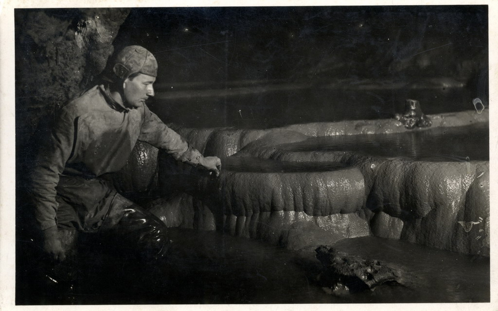 Hubert Kessler at tuffdam of „Török fürdő” (Turkish bath) in Baradla Cave